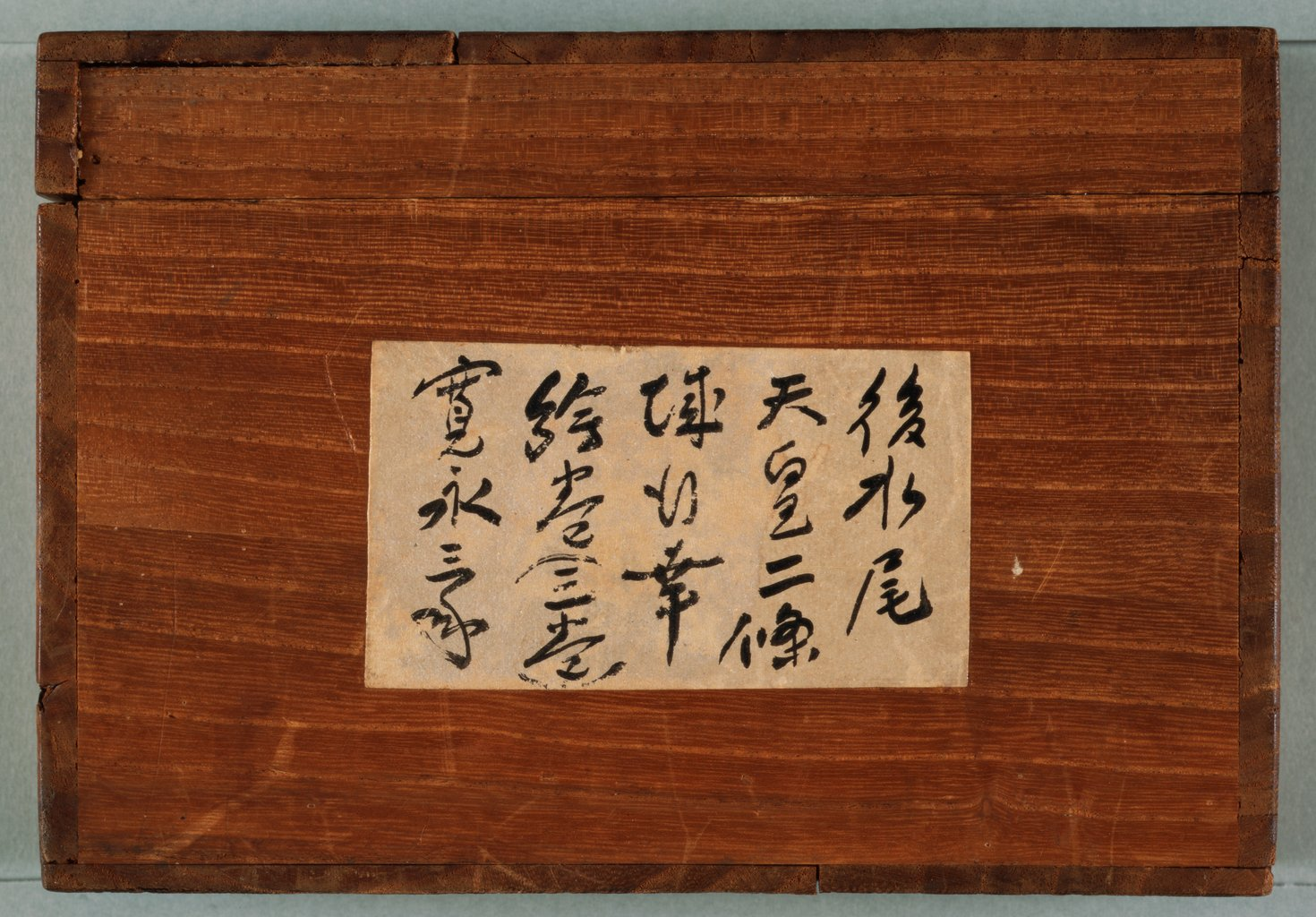 This picture scroll depicts the procession of Emperor Gomizunoo (reigned 1611–29) on a visit to Tokugawa Hidetada and Tokugawa Iemitsu, who were both among the most prominent lords of the Tokugawa shogunate. The Tokugawa shoguns were a family of military leaders who were the real power in Japan from 1603 until 1868, although nominally appointed by the emperor. The emperor and his extensive entourage are shown on their way to Nijō-jō Castle, the Tokugawa residence in Kyoto in September 1626 (the third year of the Kan'ei era, which ended in 1643). Both pictures and letters are printed in type, the only such example in the printing history of Japan. Gomizunoo, Emperor of Japan, 1596-1680; Kings and rulers; Parades and processions